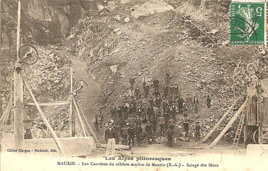 Carte postale ancienne : Les carrières du célèbre marbre de Maurin